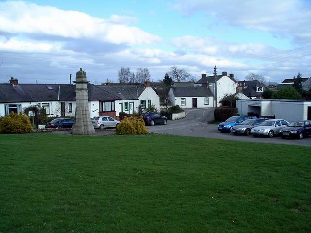 Hightae The village of Hightae is one of the Royal Four Towns of Lochmaben (planned C18 villages), the others being Greenhill, Heck and Smallholm. Hightae boasts a church, post office, school and pub. The Hightae Church of Scotland Kirk was built as a Relief meeting house and later altered for the Reformed Presbyterians (Cameronians). The Royal Four Towns Hall (1910) has red sandstone dressing with a small statue of Robert the Bruce. The War Memorial (seen in the picture) was erected around 1920.